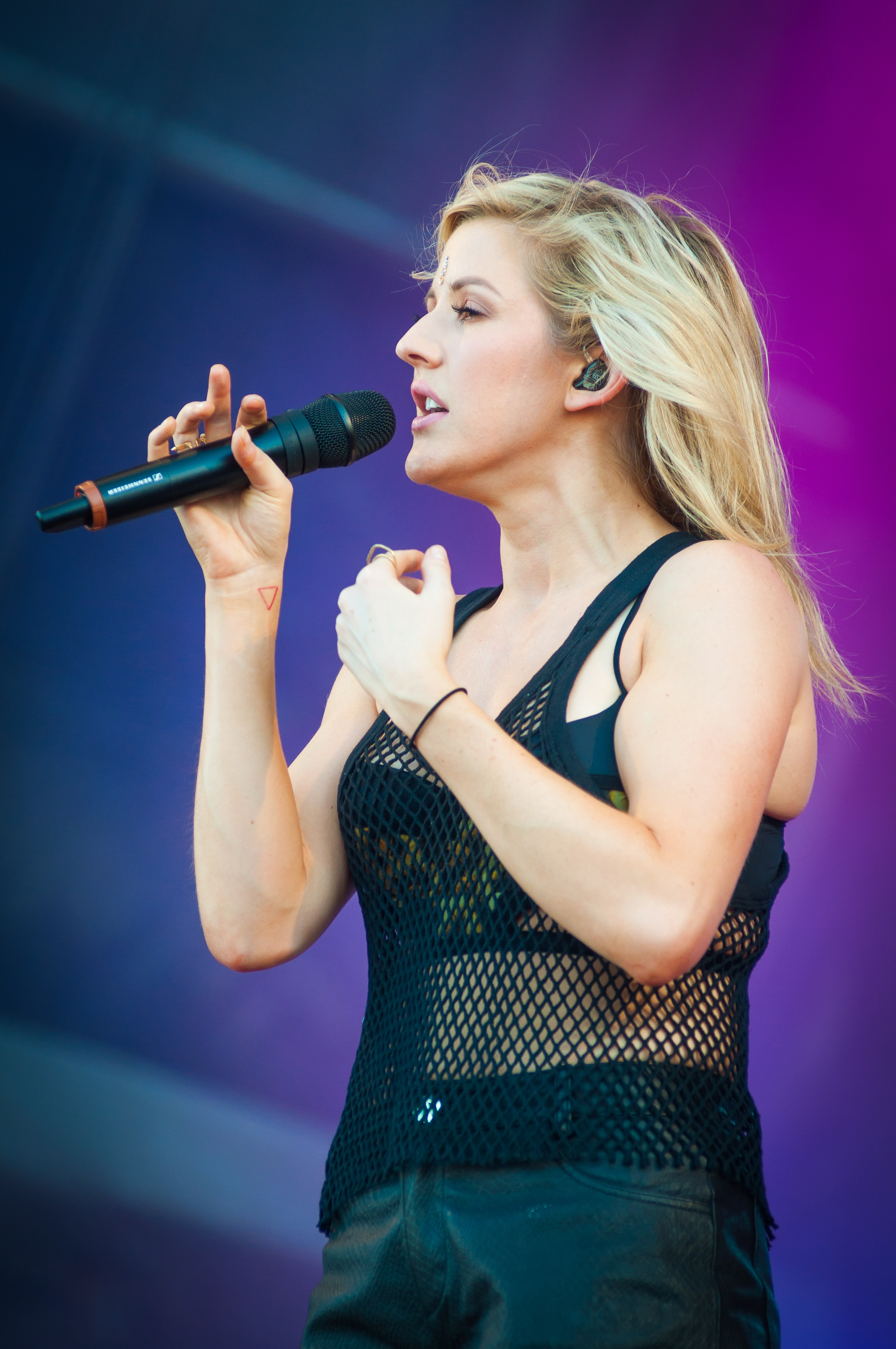 English singer Ellie Goulding performing at the 2014 Ilosaarirock festival in Joensuu, Finland.